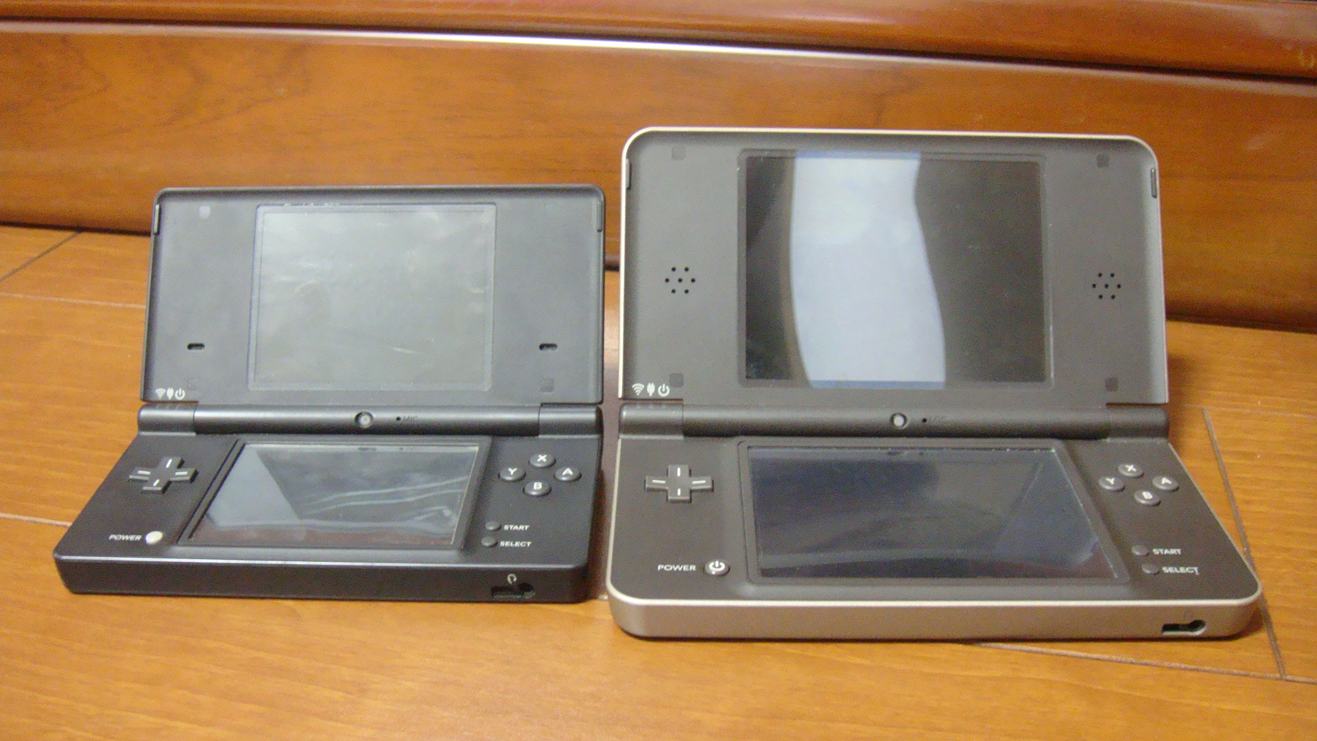 Comparison of Nintendo DSi and DSi LL